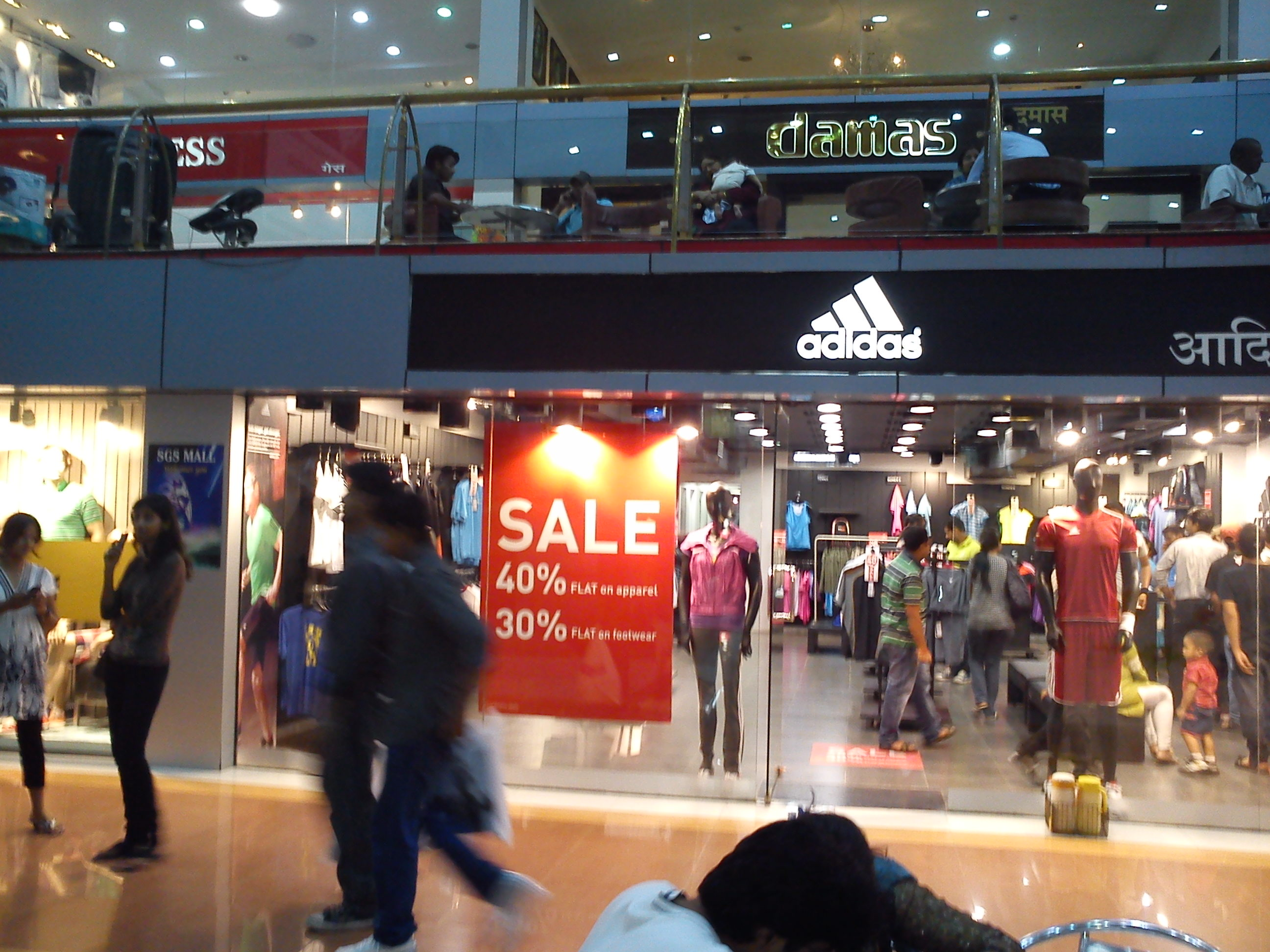 An Adidas store in Pune, India.